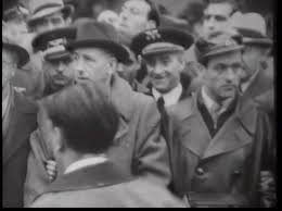 The Leonese Anarchist Buenaventura Durruti arrived in Madrid to reinforce the morale of the Republican combatents during an unsuccessful Francoist siege in Madrid. He died there. His funeral, headed (in the image) by Lluis Companys, president of the Generalitat of Catalonia, and Joan García i Oliver, Minister of Justice of the Spanish Republic and ararquist, was held in Barcelona.